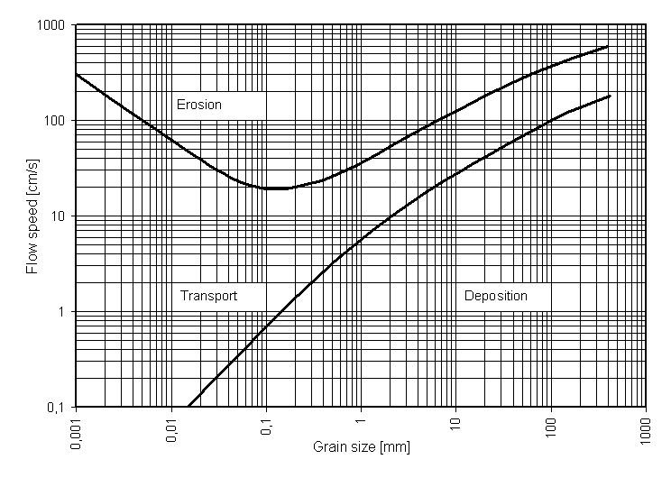 An English version of the Hjulstrom chart, describing transport, deposition and erosion in streaming water.